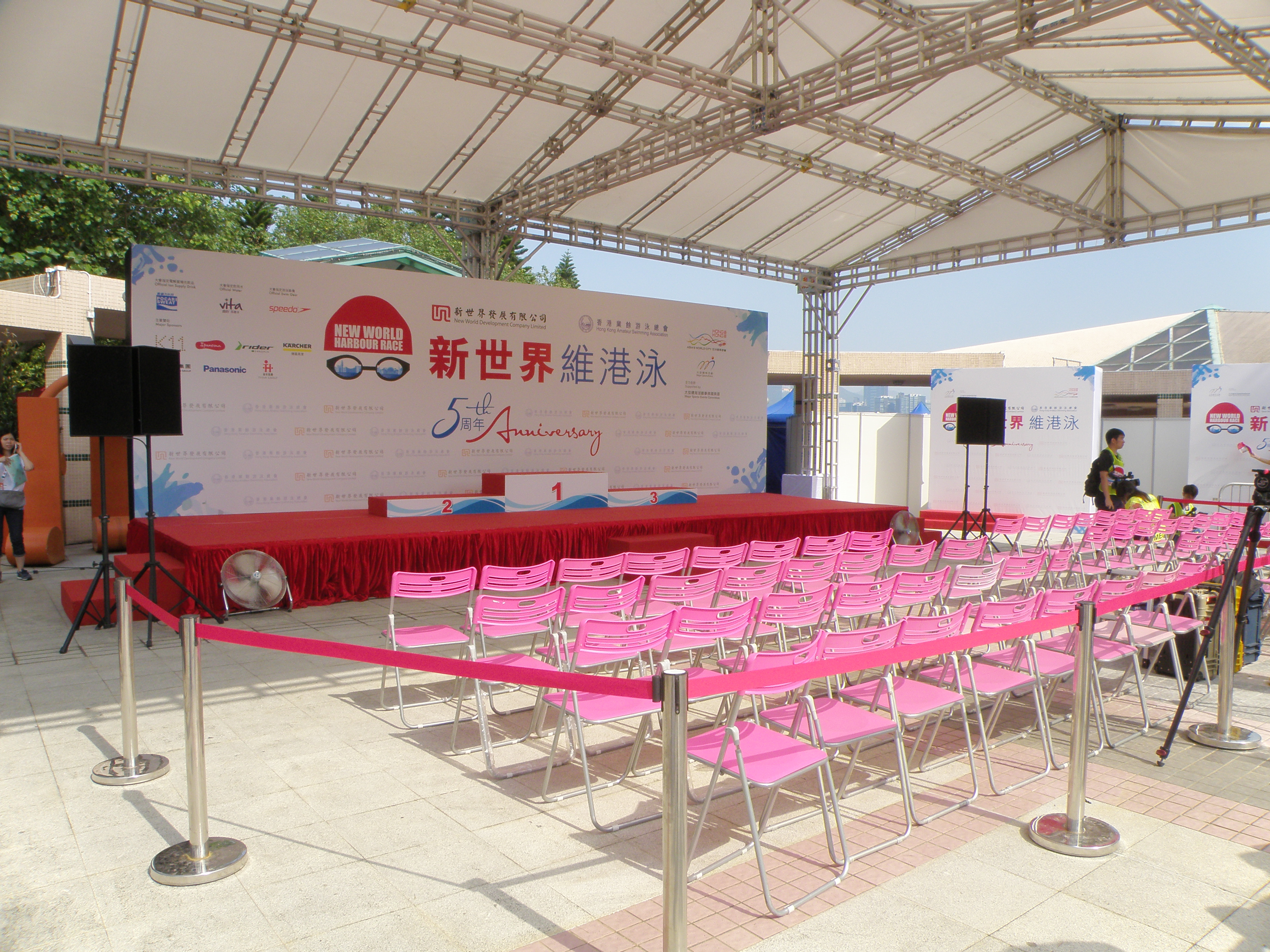 New World Harbour Race in Victoria Harbour, Hong Kong.